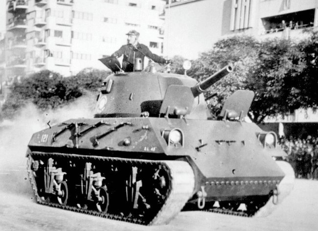 Picture taken from one of the webpages referenced. I believe that the original source is the "Archivo General de la Nacion", in Buenos Aires, Argentina; as it has been seen in different sites and publications (I need to provide evidence and references on this, all my technical books are still packed and out-of-reach).